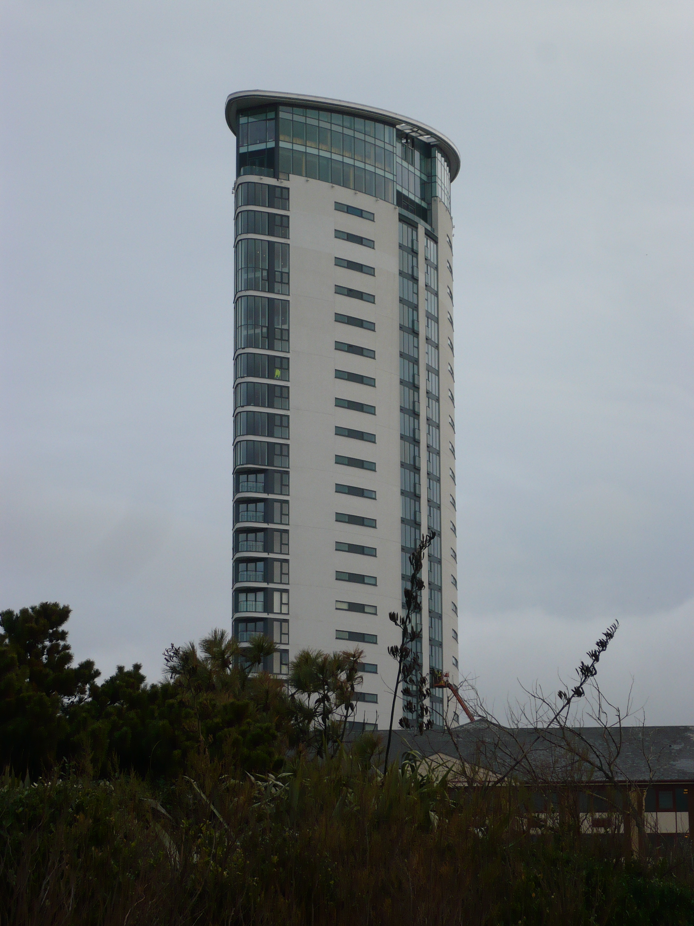 A photo of the The Tower Meridian Quay.